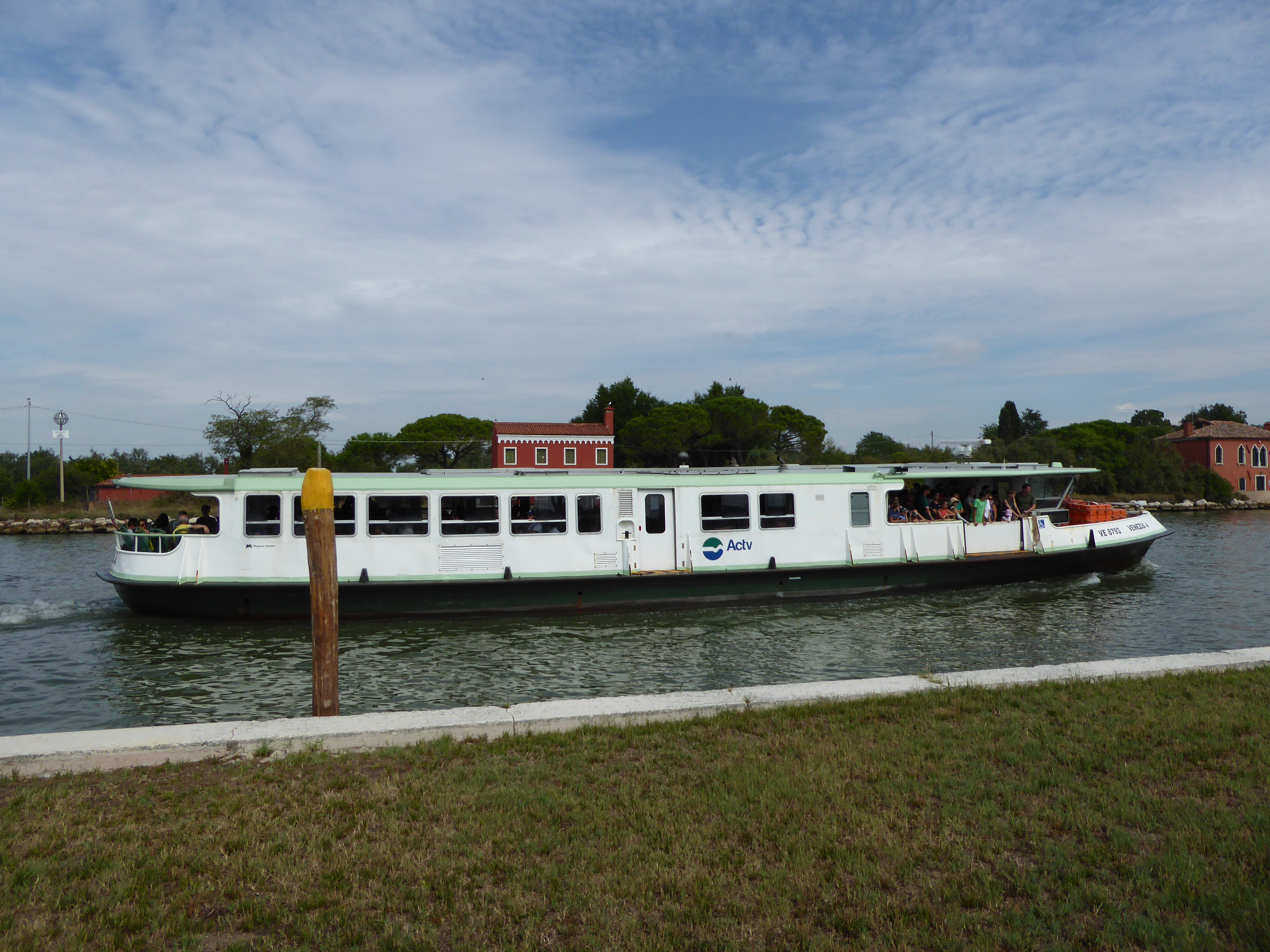 Vaporetto 130 tons